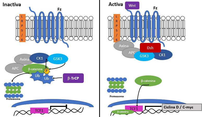 Wnt/ Beta-catenin signaling pathway